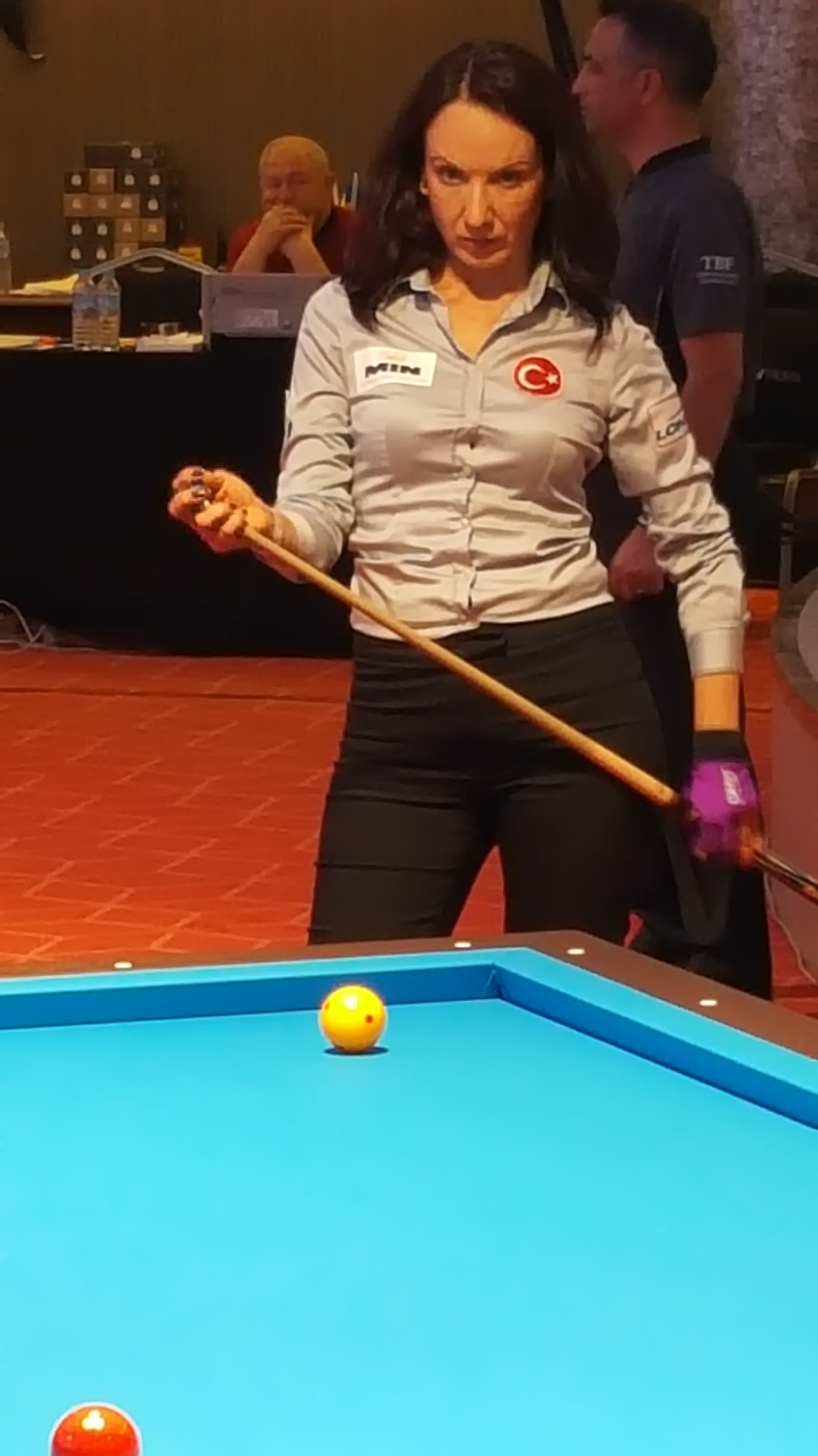 2018/1 3-cushion World Cup in Bosphorus Sorgun Hotel, Antalya, Turkey